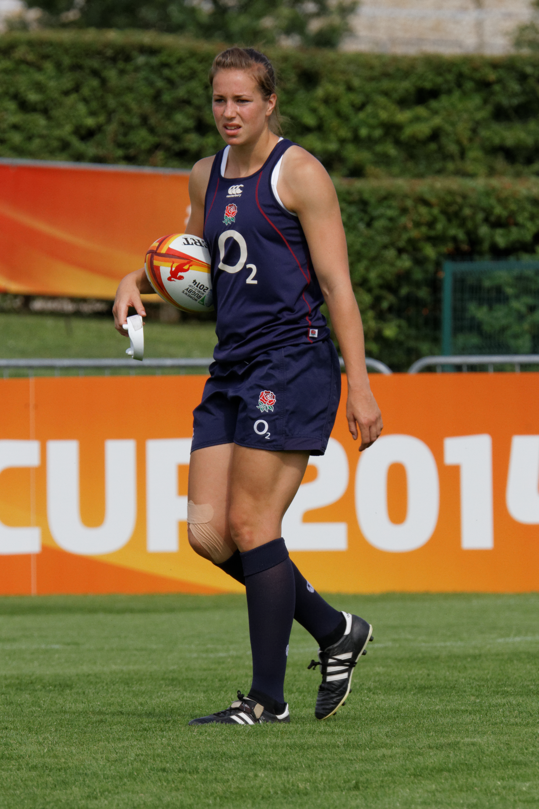 2014 Women's Rugby World Cup